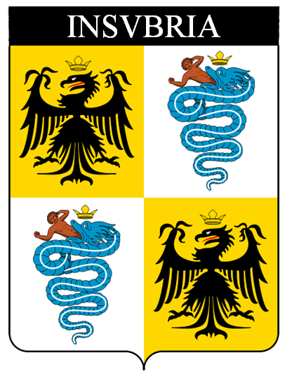 Coat of Arms of Insubria